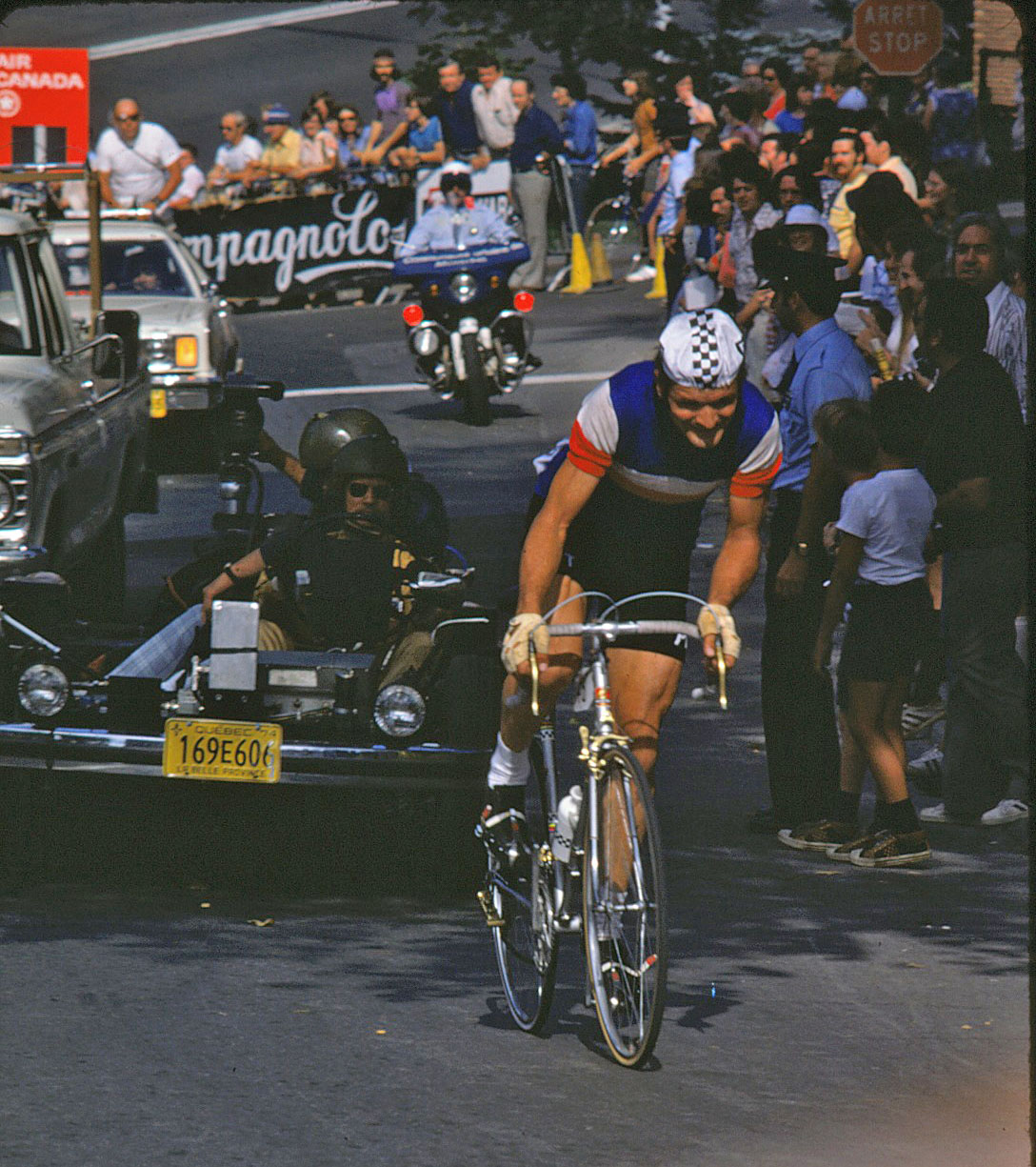 French rider Bernard Thevenet riding on Mount Royal at the 1974 World Cycling Championships in Montreal, Quebec, Canada.